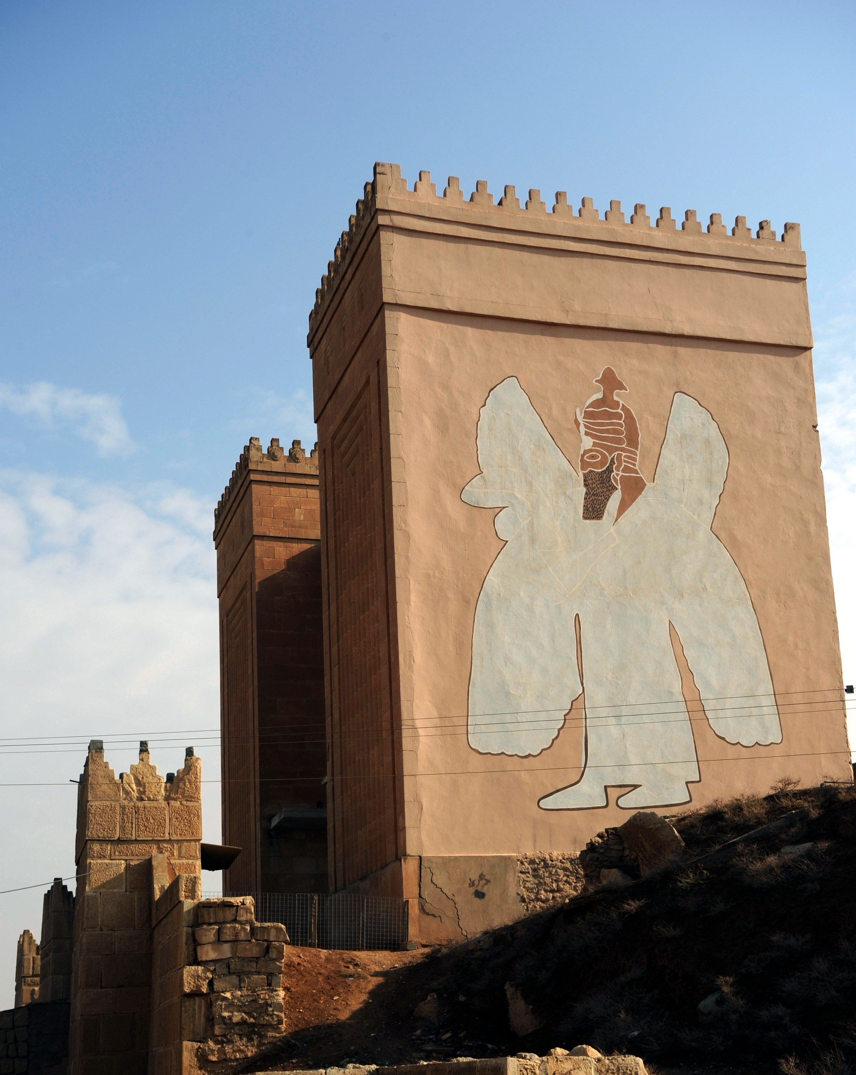 Remains of Nergal gate in Nineveh, Iraq, Nov. 22, 2008. Nineveh, built between 704-681 B.C., was a capital of the Assyrian Empire and was surrounded by a 12-kilometer mud brick wall.